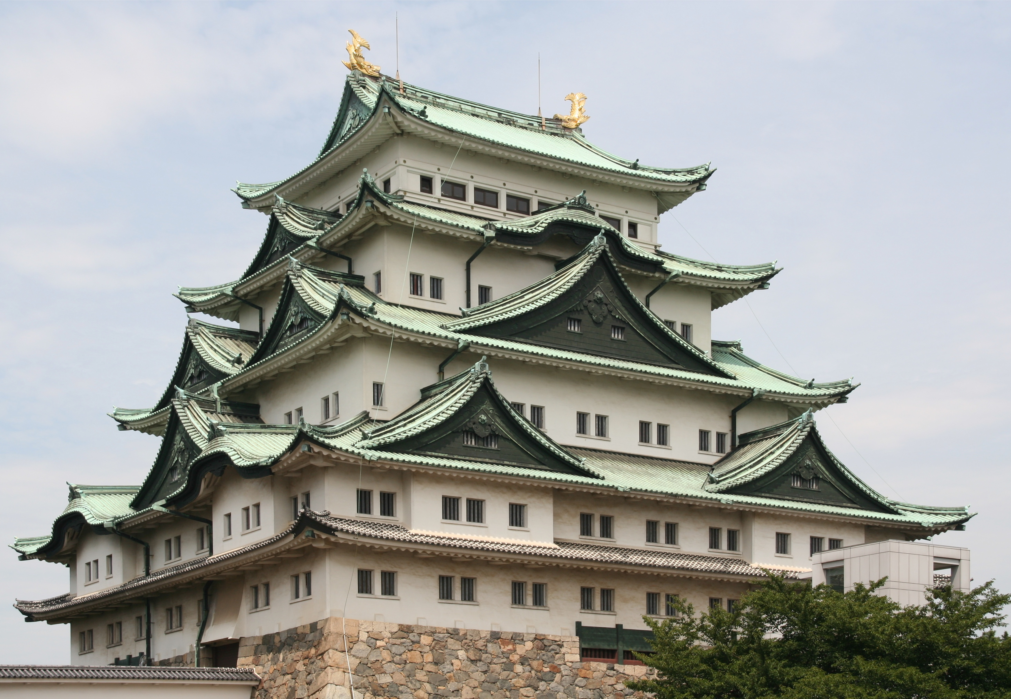 Nagoya Castle Keep Tower, Japan